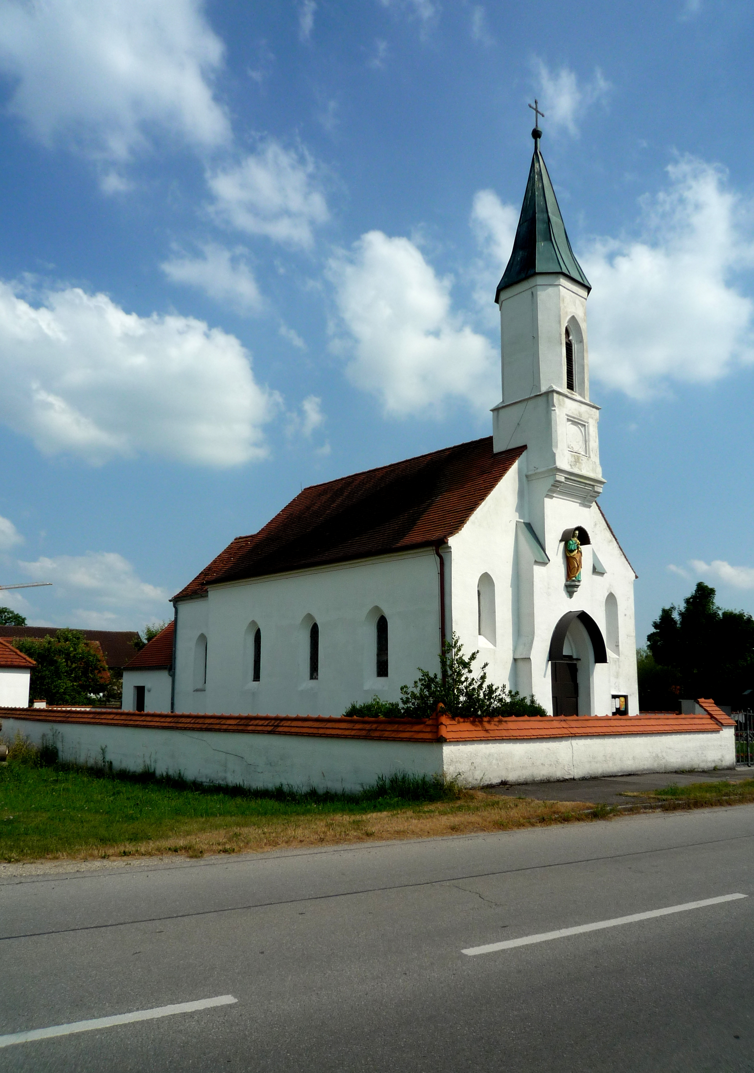 church of Achering (part of Freising)